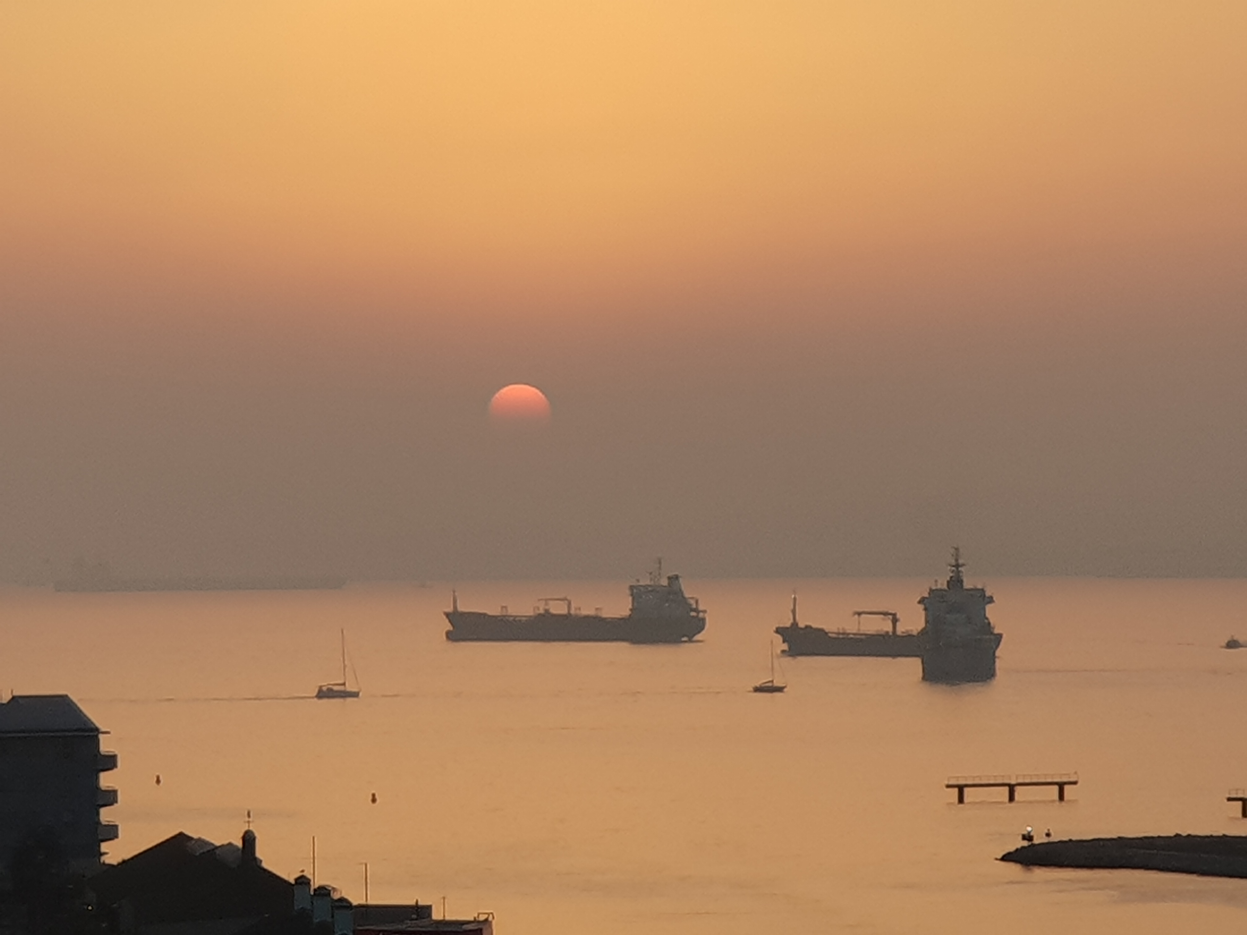 Bay of Gibraltar sunset.